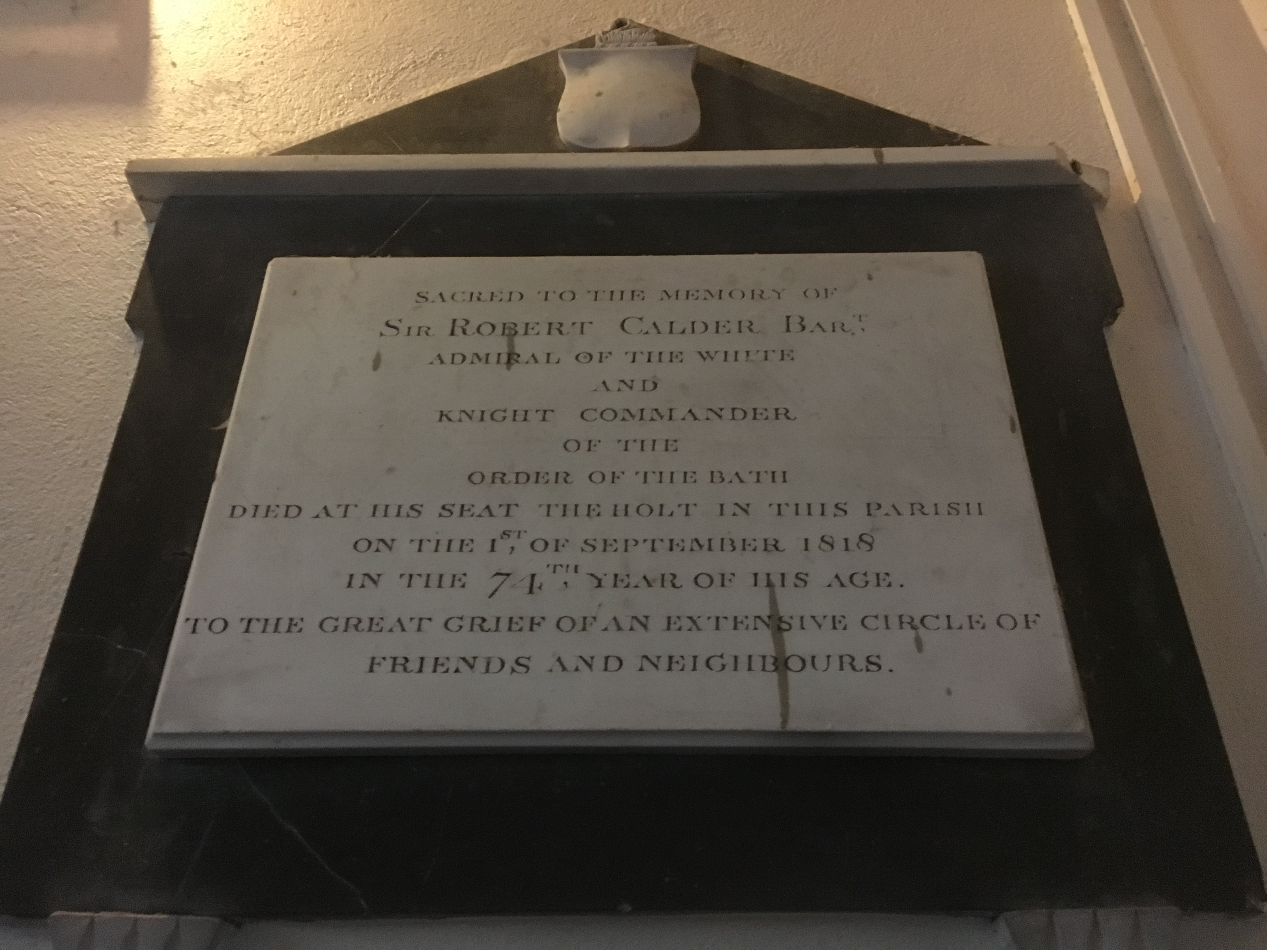 Historical Marker for Admiral of the White Sir Robert Calder at the Church of the Blessed Mary in Upham, England.